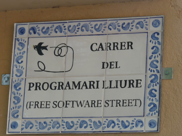 Inauguration of the Free Software Street in Berga, Catalonia, Spain. In catalan is "Carrer del Programari Lliure" and down there is english name.